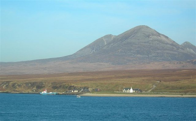 Feolin Ferry viewed from Port Askaig, Islay